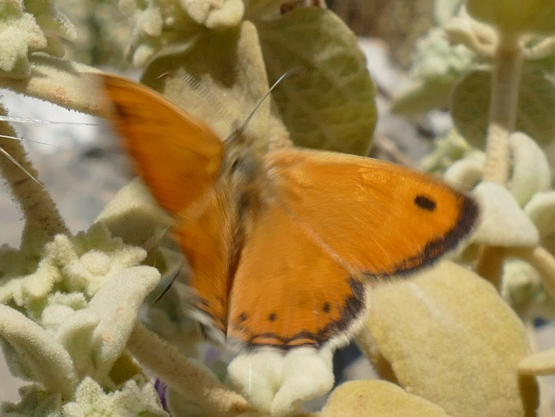 Cretan Small Heath (Coenonympha thyrsis), Georgioupolis, Crete